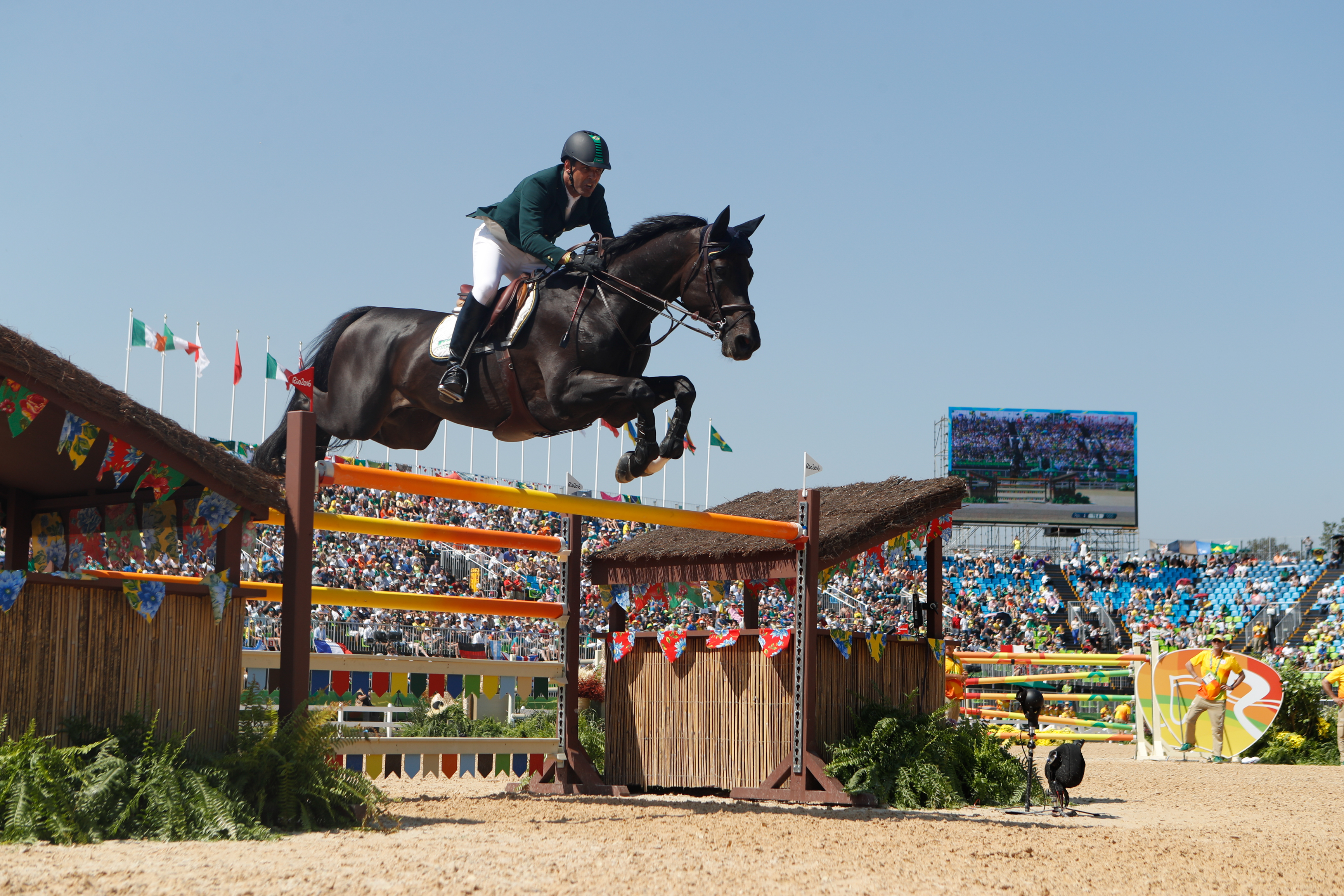 Rio de Janeiro - Cavaleiro Doda Miranda na apresentação de saltos do hipismo em que a equipe brasileira terminou na 4ª colocação geral nos Jogos Olímpicos Rio 2016, em Deodoro . ( Fernando Frazão/Agência Brasil)